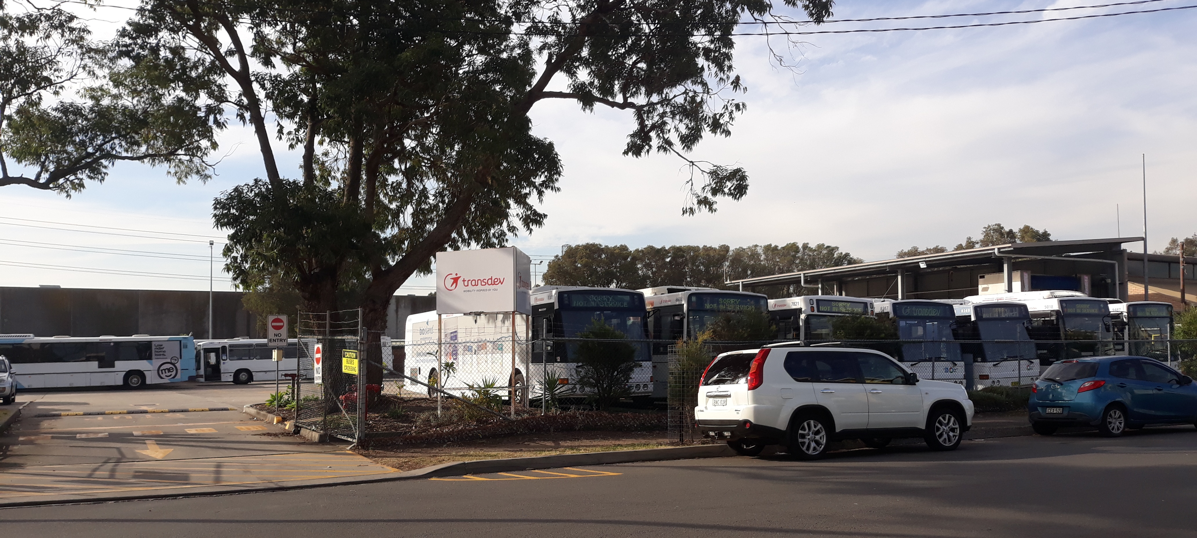 Transdev bus depot in Taren Point, a suburb of Sydney in Australia. The photo shows the exit of depot on the far left, with buses parked in the depot.